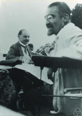 Mathematicians Friedrich Moritz Hartogs (left, back) and Heinrich Tietze (right, front).